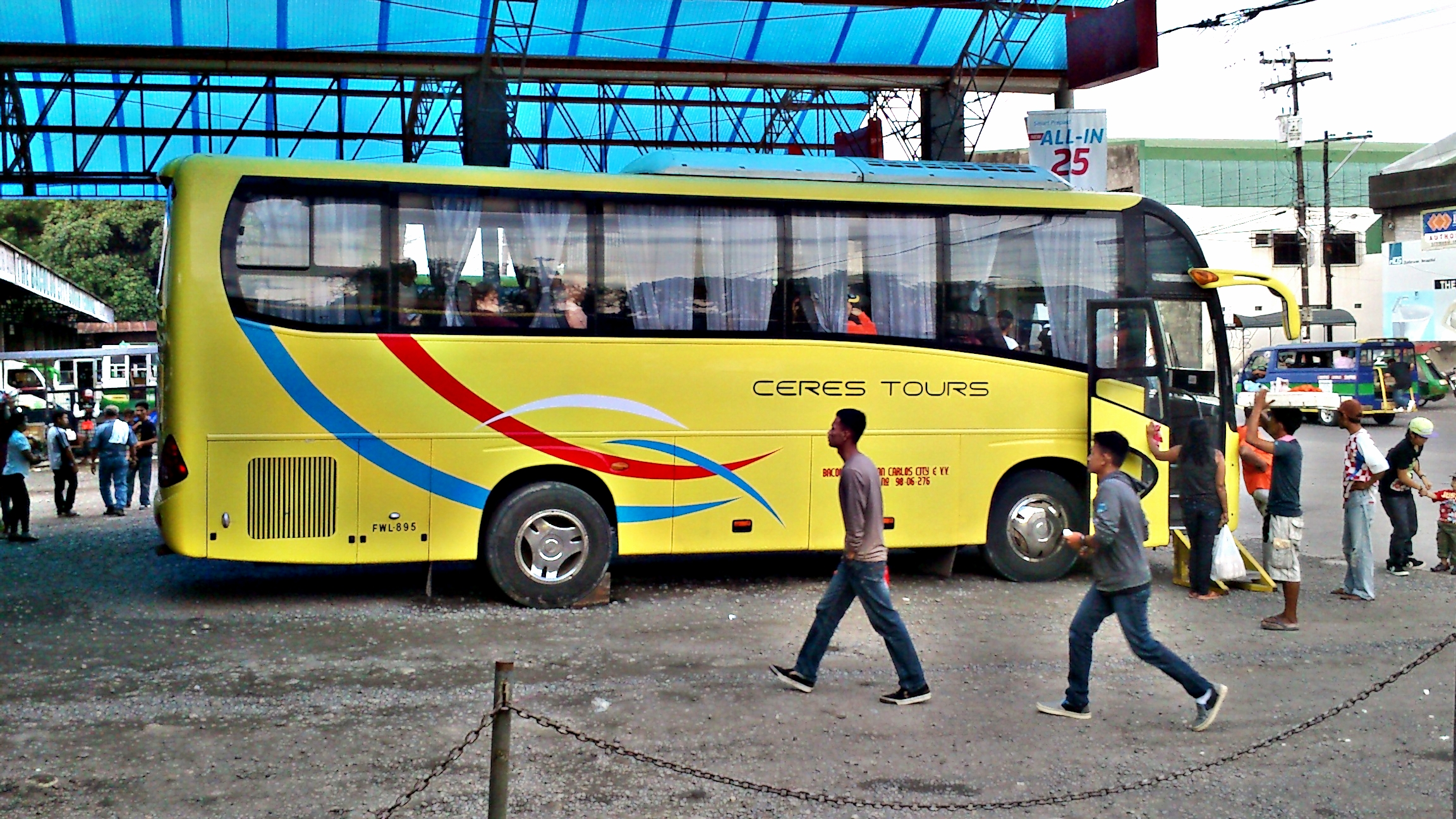 A Ceres Tours 584. A shot from Josh Hernandez, PBPA